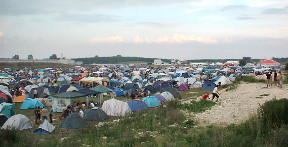 Tents at the Berlinova-Festival, Germany 2004